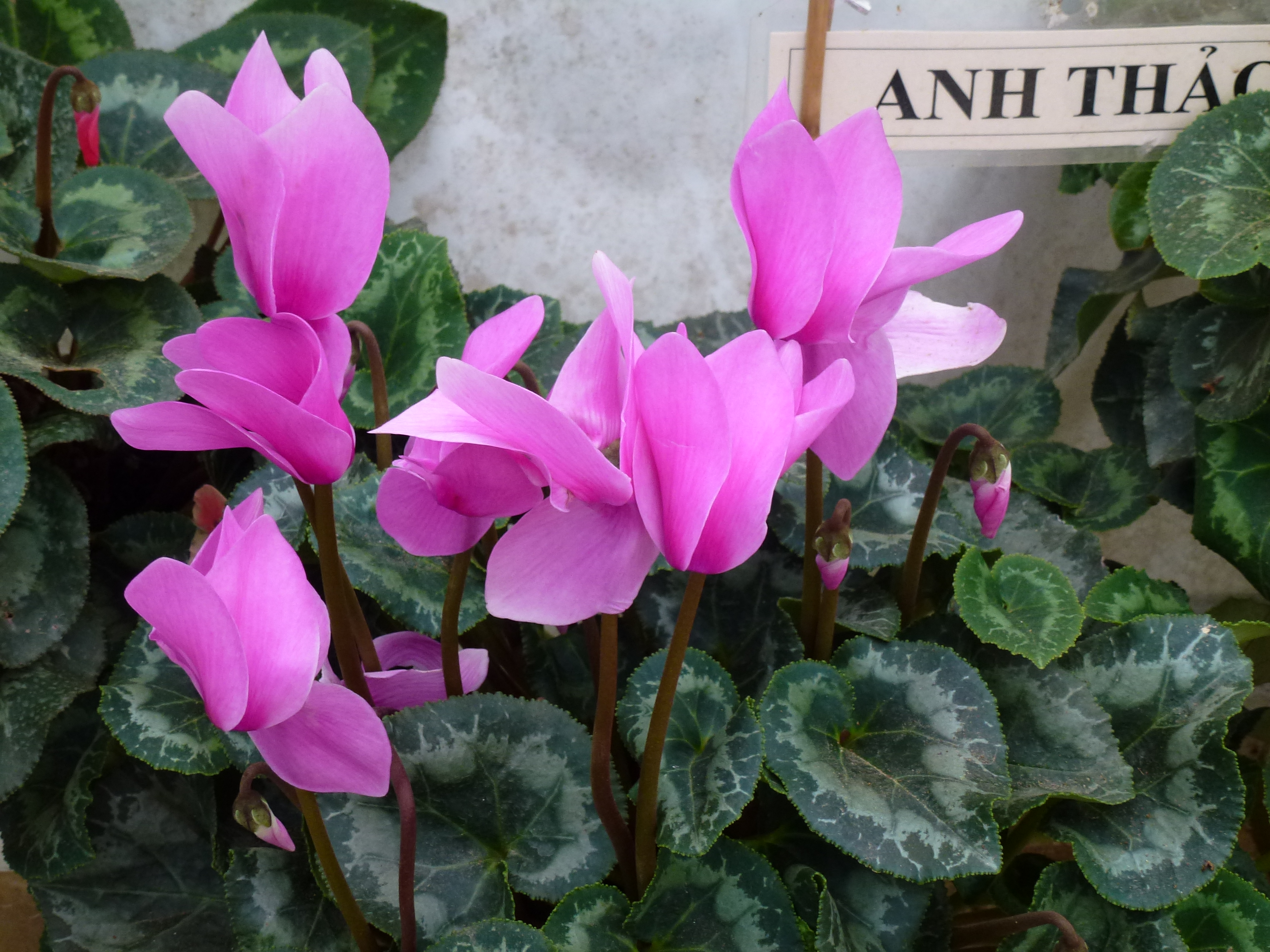 Cyclamen persicum in Dalat, VietnamTiếng Việt: Hoa anh thảo tại Đà Lạt